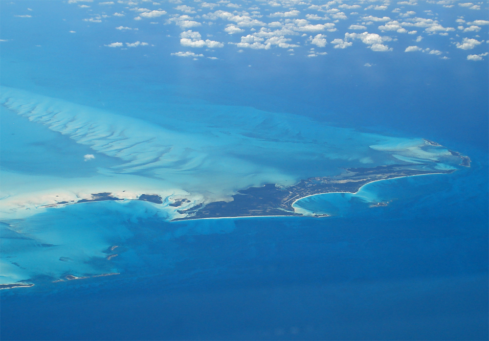 View of Great Harbour Cay taken from 38,000ft on a Thomas Cook Airlines Airbus A330 en-route from Manchester to Cayo Coco